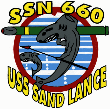 Insignia of USS Sand Lance (SSN-660)